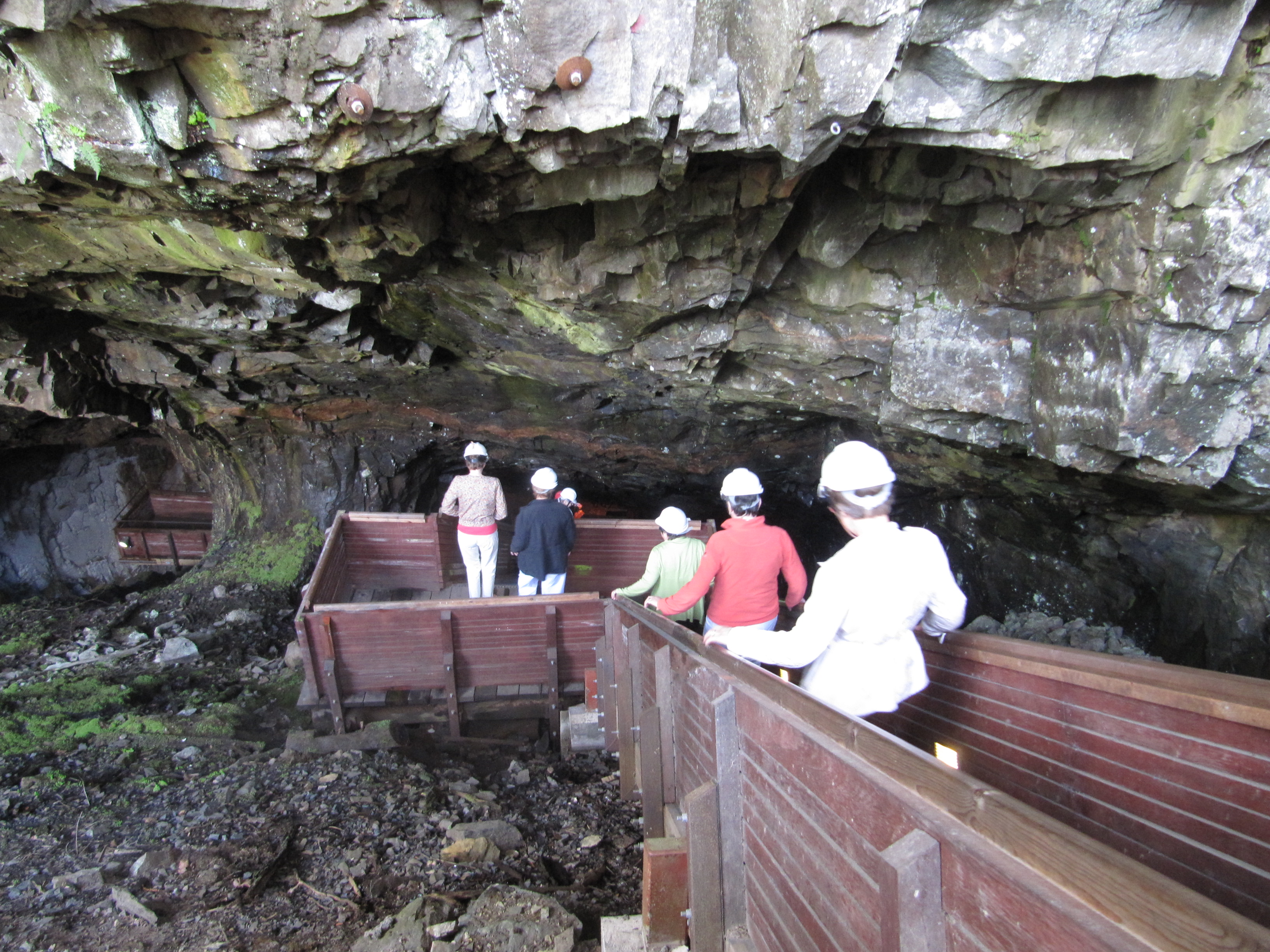 The old mine Lockgruvan at Pershyttan, Nora, Sweden